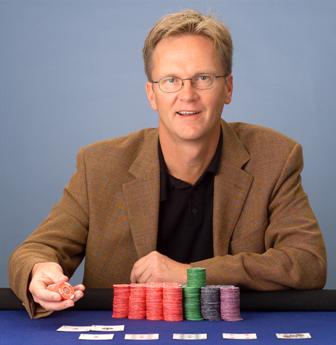 Photo of Randy Blumer, founder of Planet Poker